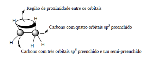 dsfsdfa